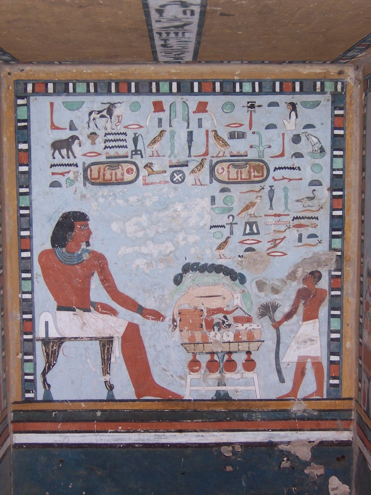 Pictures from Aswan, Egypt